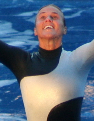 Dawn Brancheau at the Riders of the Storm show, at SeaWorld, Orlando, Florida, in 2006. She would be killed by the killer whale Tilikum in 2010.